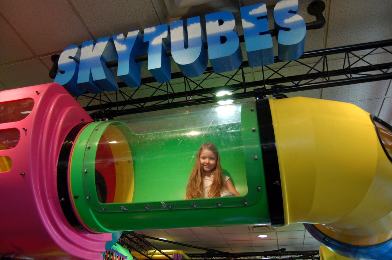 Chuck E. Cheese Adventure!